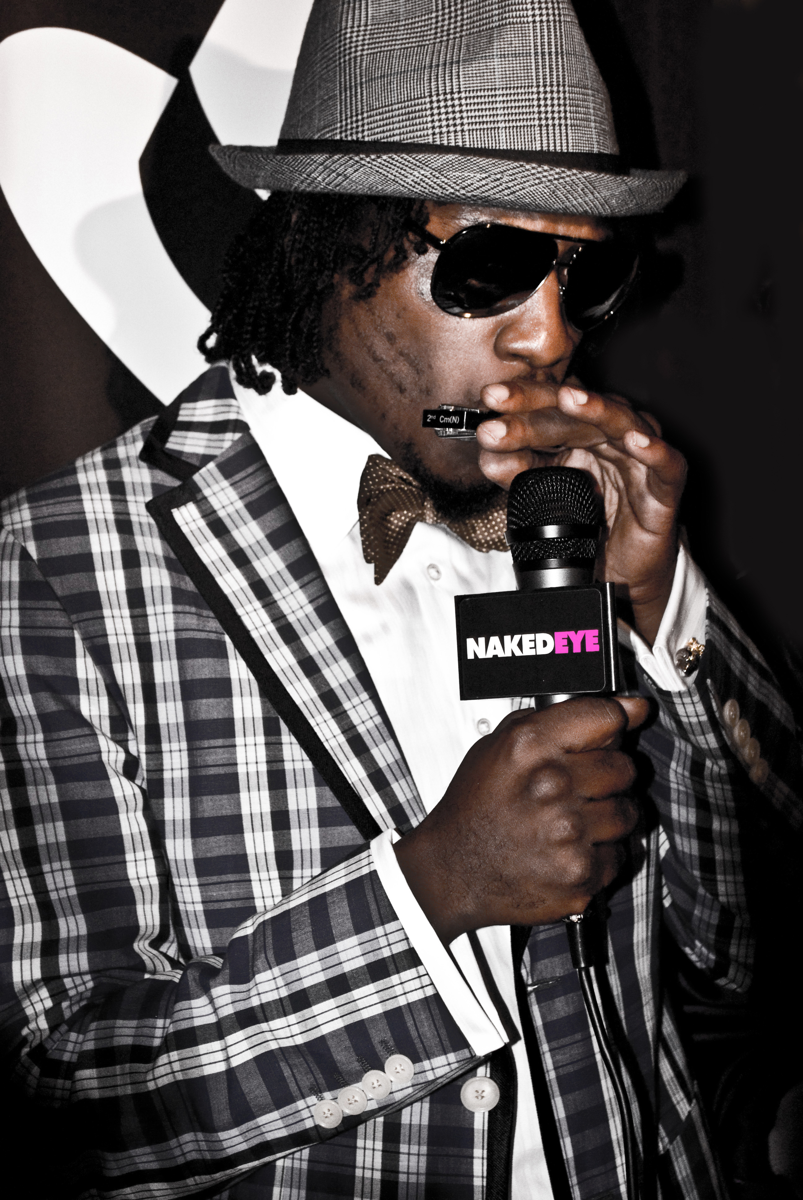 Bad News Brown at his debut album release event.